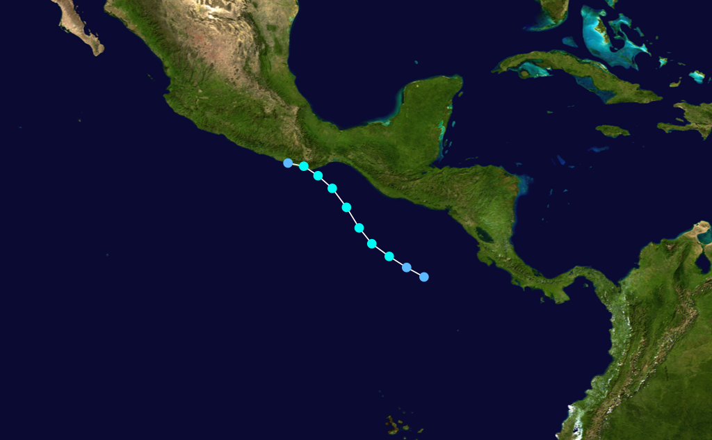 Tropical Storm Cristina (1996) track. Uses the color scheme from the Saffir-Simpson Hurricane Scale.